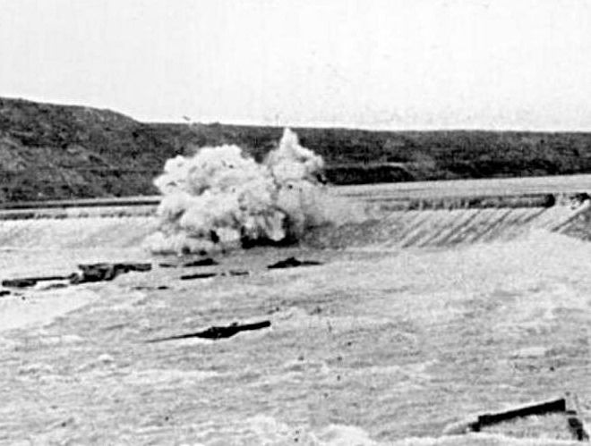 Black Eagle Dam is dynamited on April 14, 1908 in Montana. A hydroelectric dam on the Missouri River in Great Falls. Hauser Dam upstream had collapsed, and Black Eagle Dam was partially destroyed in order to provide a means for the floodwaters to escape (rather than destroy the dam).